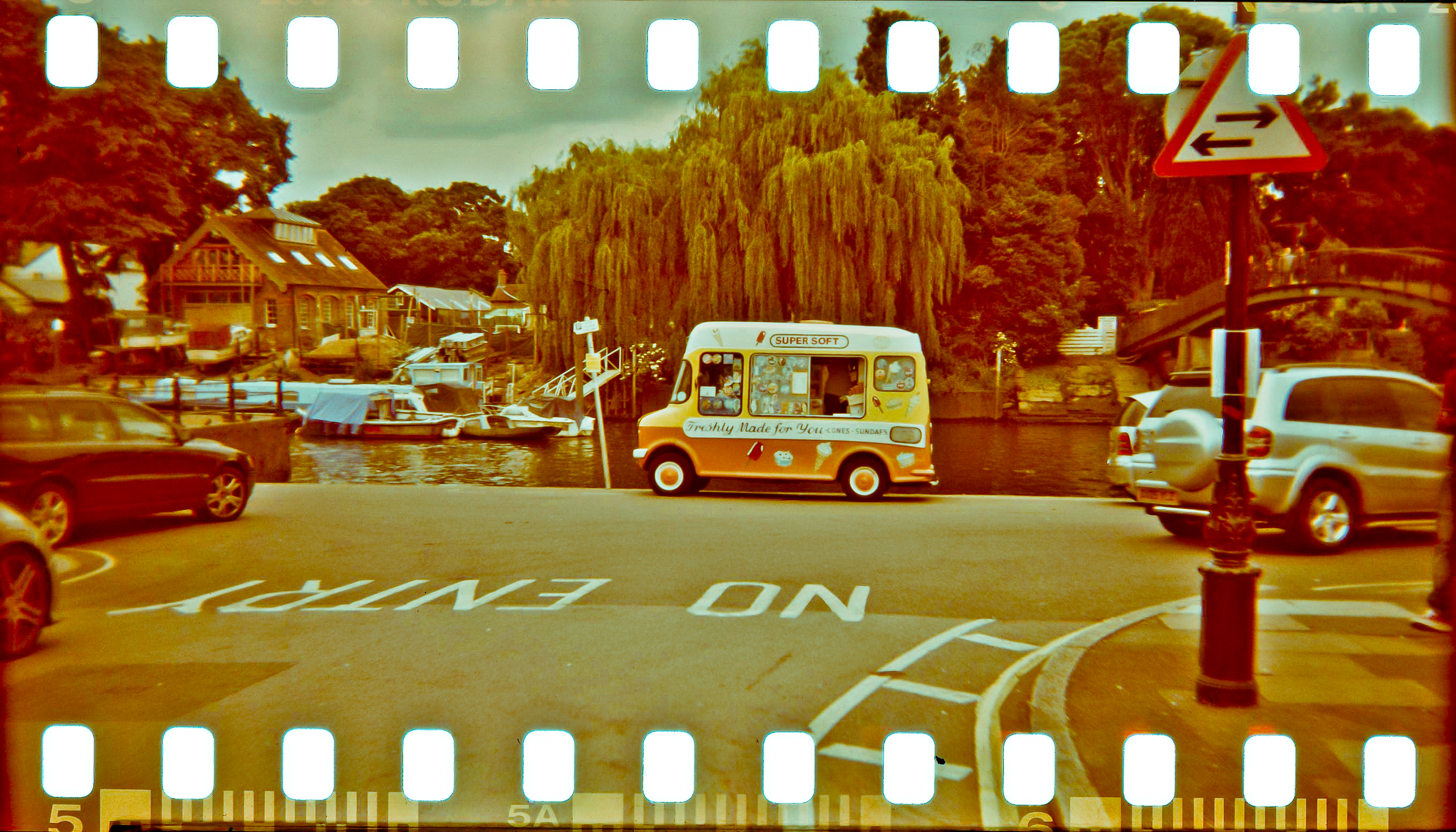 A photograph featuring several alternative photography techniques: Shot using a Holga Sprocket hole photography Kodak Color Plus 35mm negative film, cross processed with E-6 (slide film) chemistry From Flickr: "Oh dear, I bought a Holga. I am one of them now. "